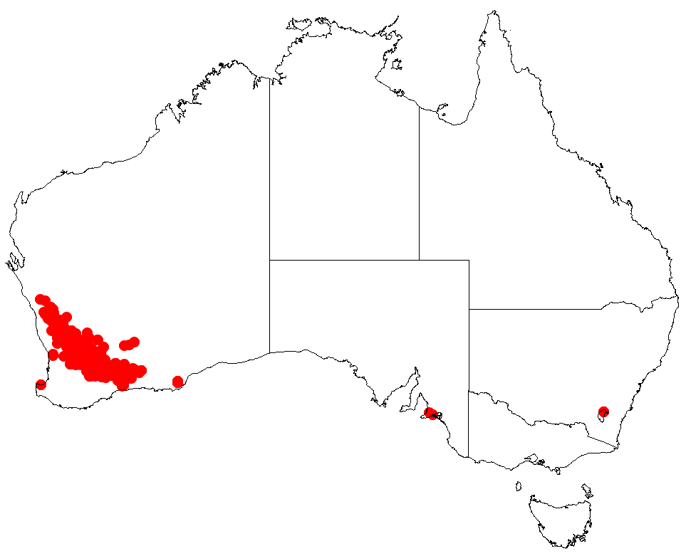 Hakea scoparia Occurrence data downloaded from Australasian Virtual Herbarium on 22 November 2018 using